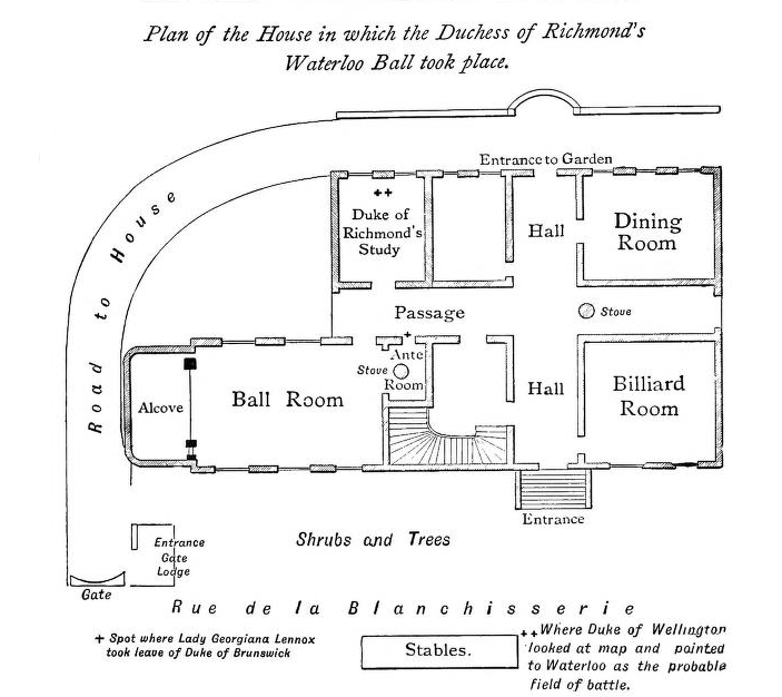 Floor plan from "Reminiscenese of Lady De Ros"